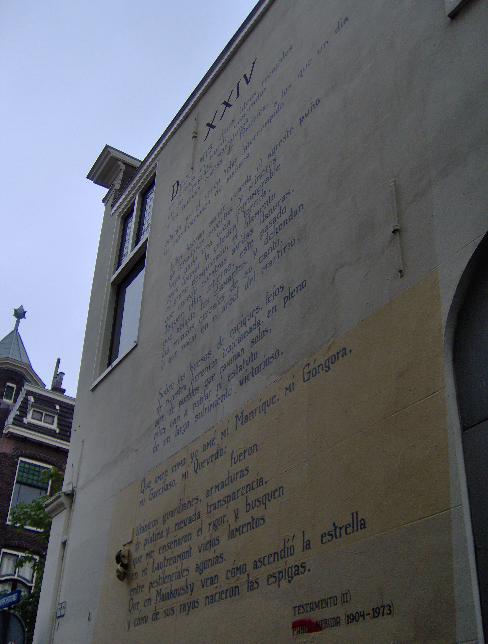 The poem XXIV - Testamento (II) of the Chilean poet Pablo Neruda on a wall of the building at the Breestraat 99 in Leiden, The Netherlands